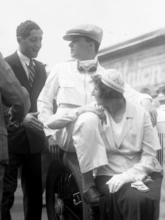 Rudolf Caracciola (sitting) with his with Charly before the 1931 Avusrennen